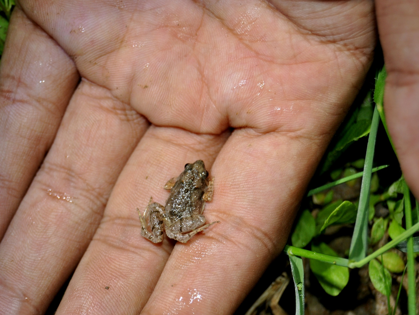 Palmated Chorus Frog, Microhyla palmipes, from paddyfield in Karawang, West Java, Indonesia. Second male individual in hand, for comparison.